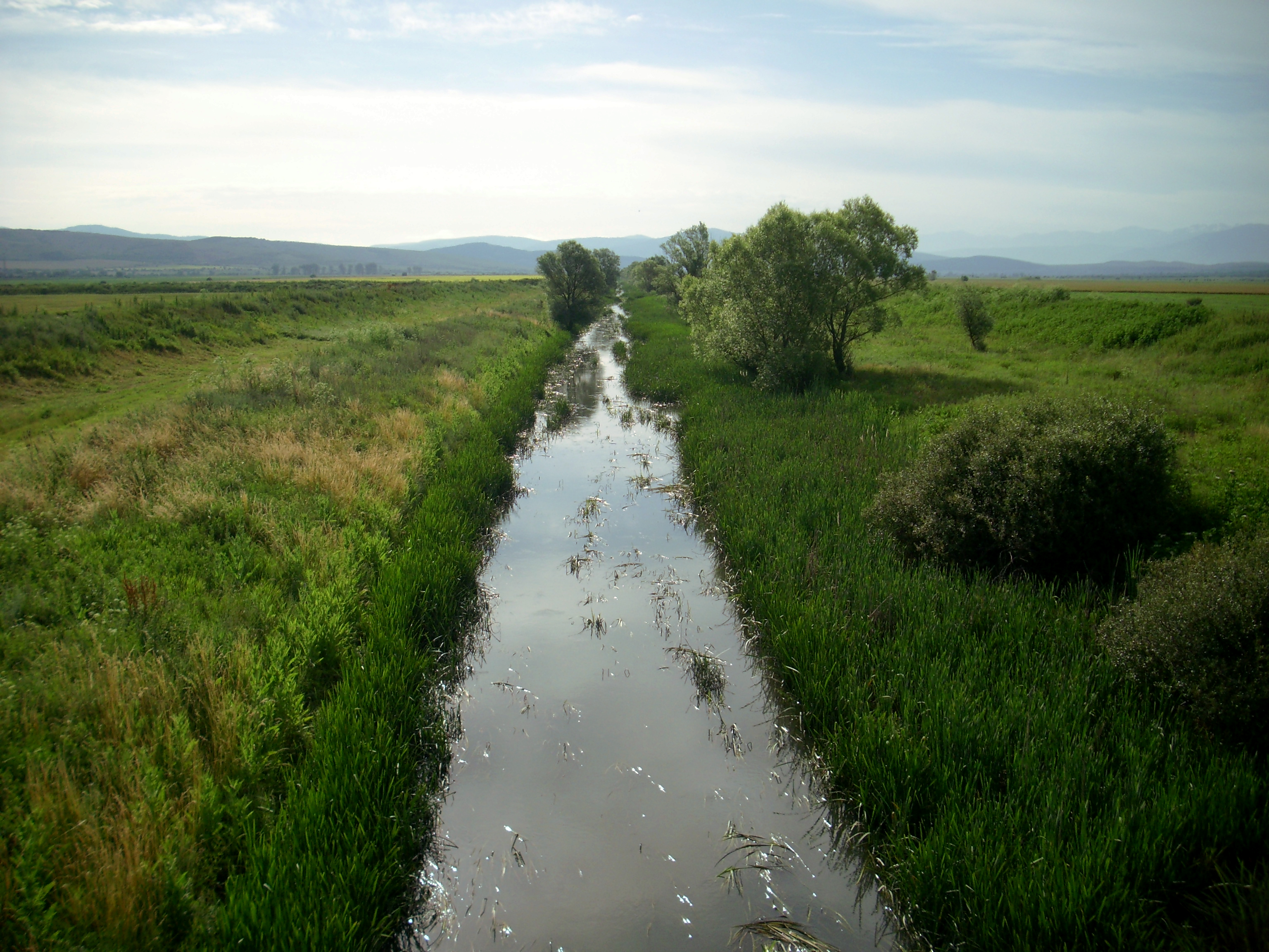 Arkata River near the village Boboratsi (Bulgaria).